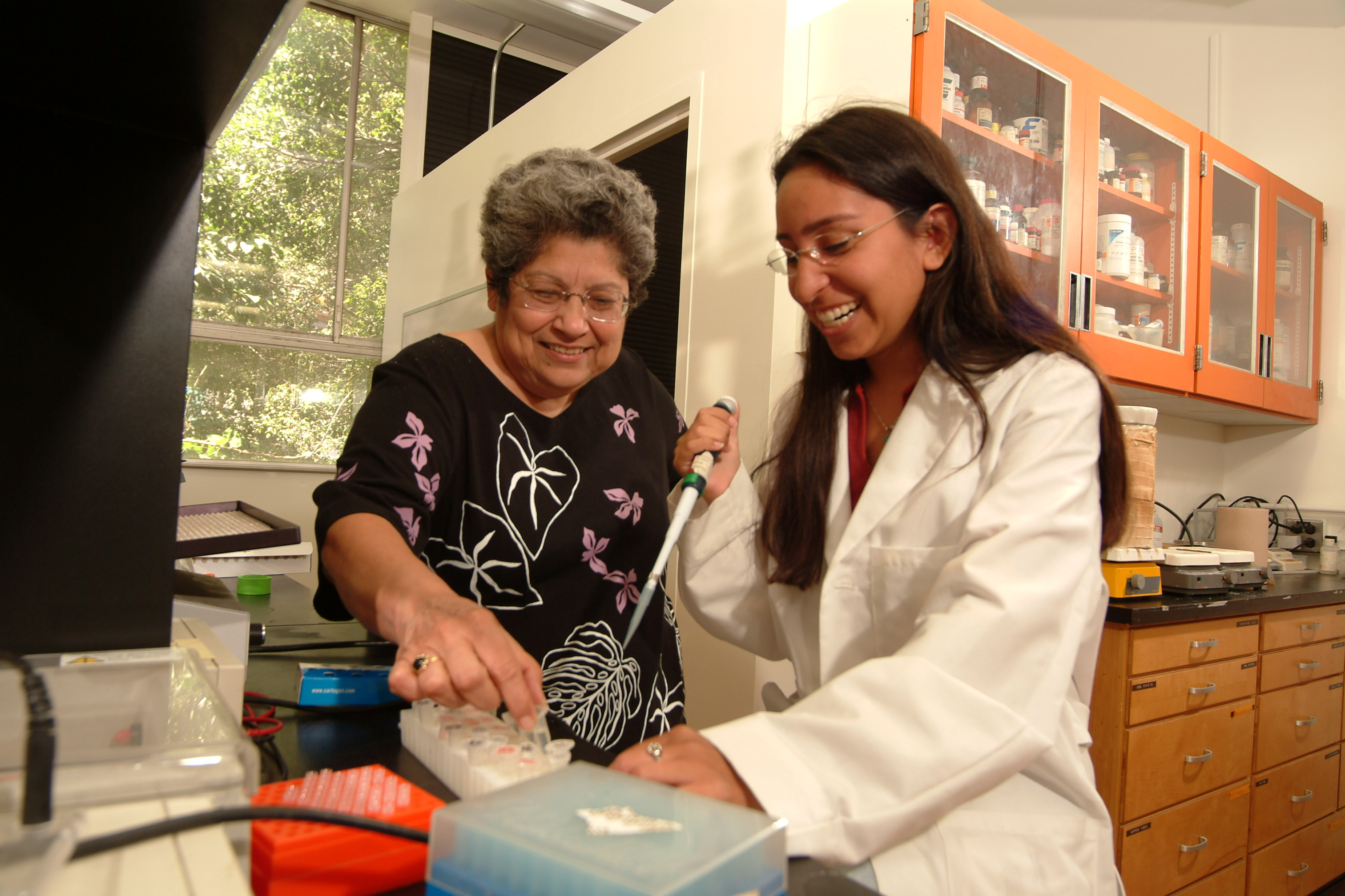 Dr. Elma González was awarded Distinguished Scientist by Society for Advancement of Chicanos/Hispanics & Native Americans in Science (SACNAS) in 2004.